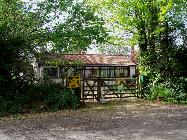 Rockwell Cattery